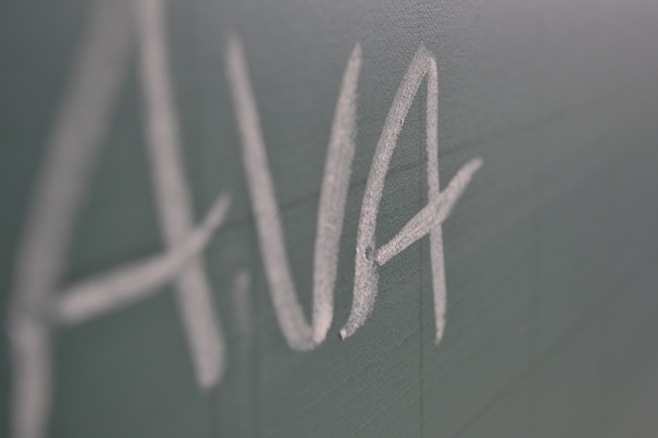 AVA (short for Virtual Learning Environment in portuguese) writing on a chalkboard at Faculdade Internacional de Curitiba (FACINTER), Curitiba, state of Paraná, Brazil.